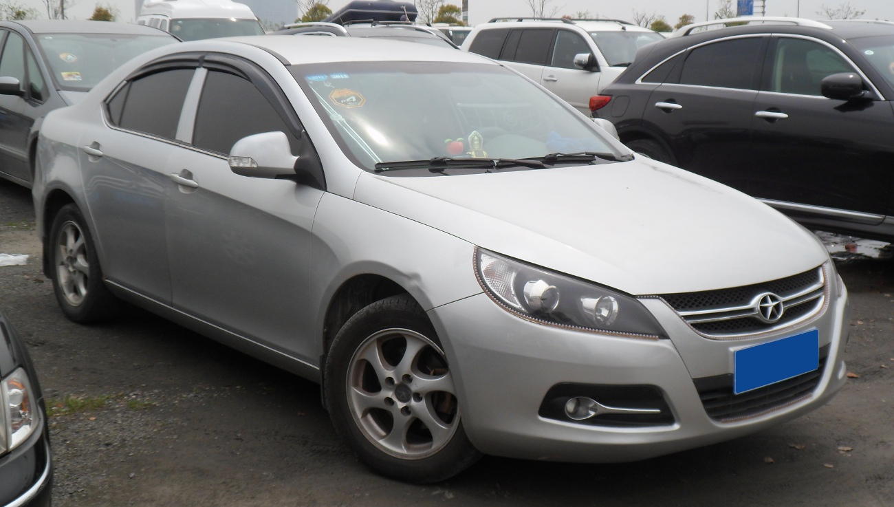 JAC Heyue photographed in Anting, Shanghai municipality, China.